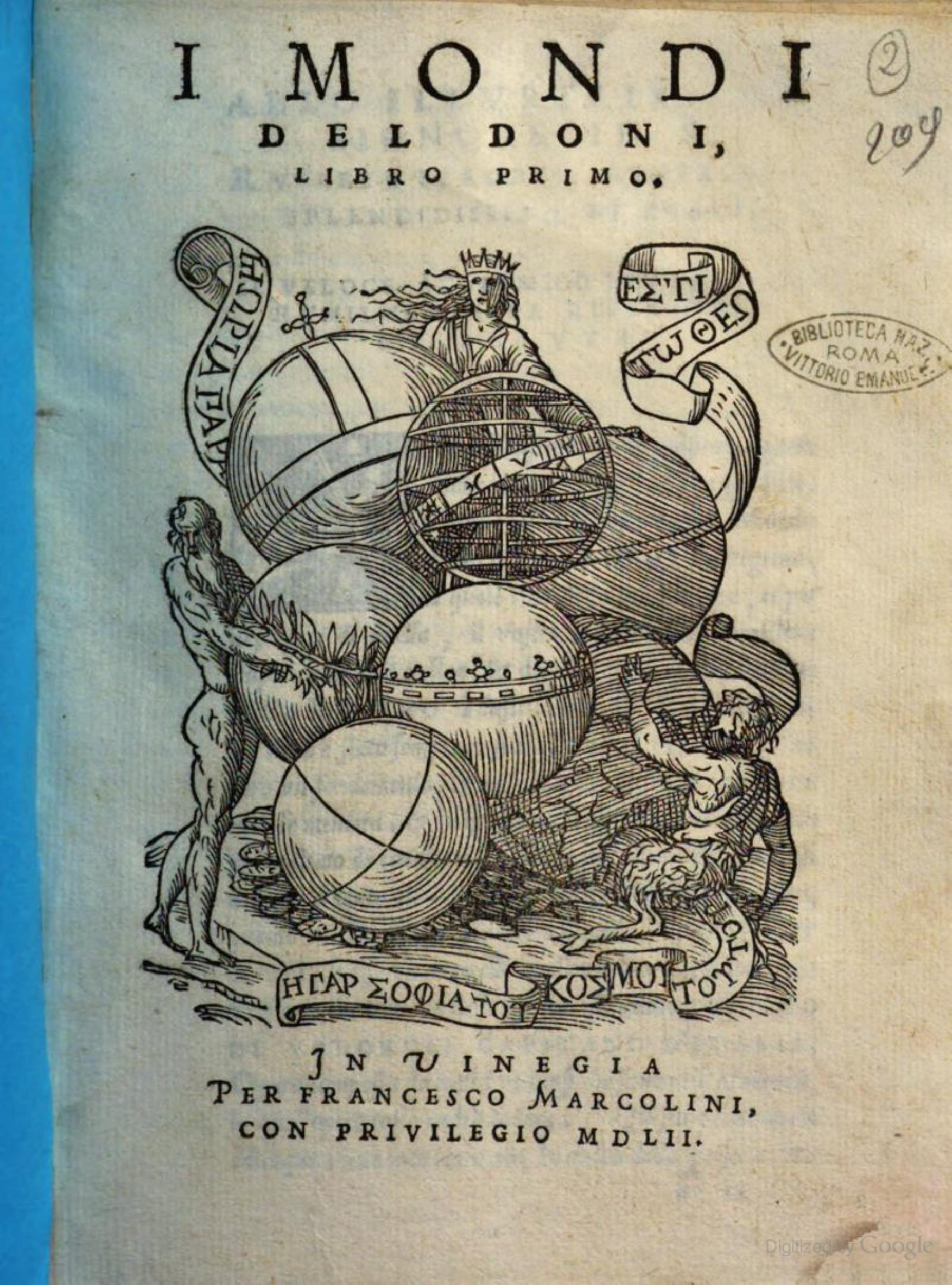 This is the frontispice of Antonio Franscesco Doni's "I Mondi del Doni"